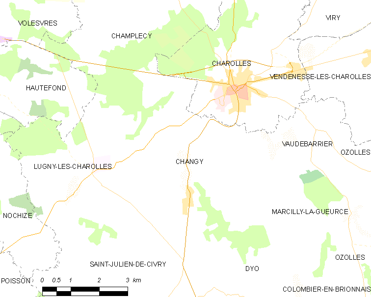 Map of French municipality